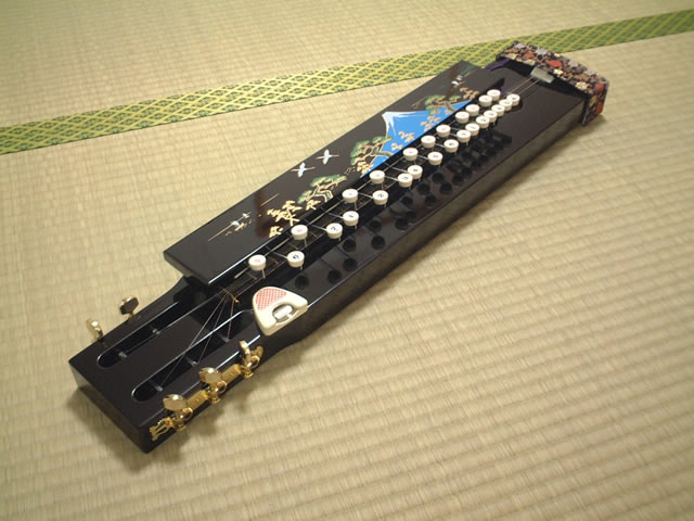 Picture of a taishōgoto on tatami mats.It seems Nardan Taishō-goto "Chōju".